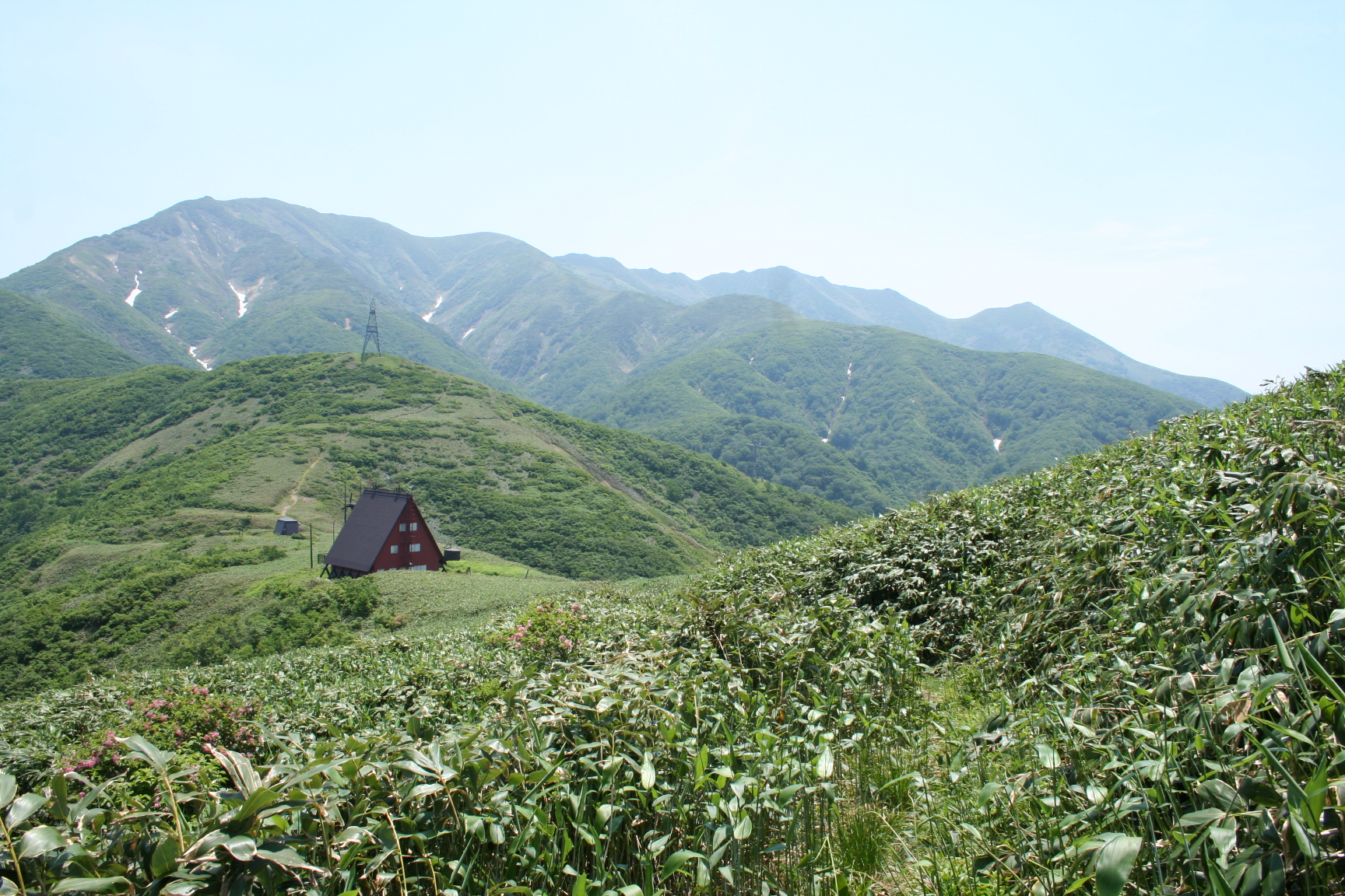 Shimizu Pass,the watershed between Gumma prefecture (to Pacific Ocean) and Niigata prefecture(to Japan Sea).